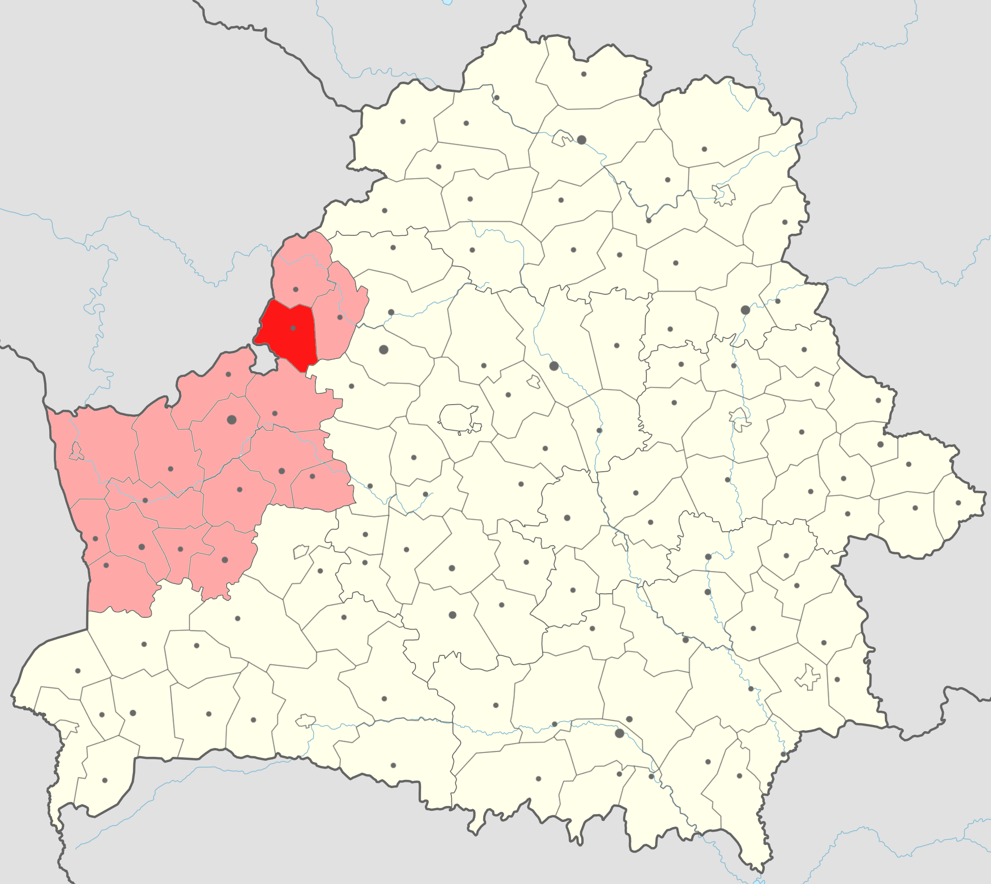 Map of Ašmianski rayon (in red) with Hrodna voblast' (in light red) on the map of Belarus.